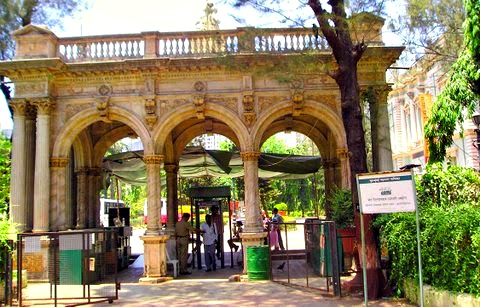 Rani bagh,Byculla, Mumbai